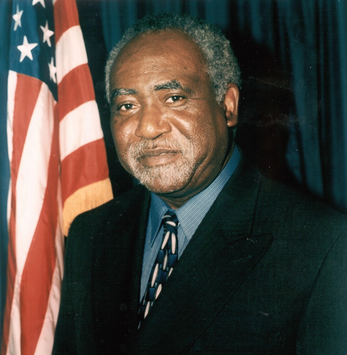 Danny K. Davis, member of the United States House of Representatives.